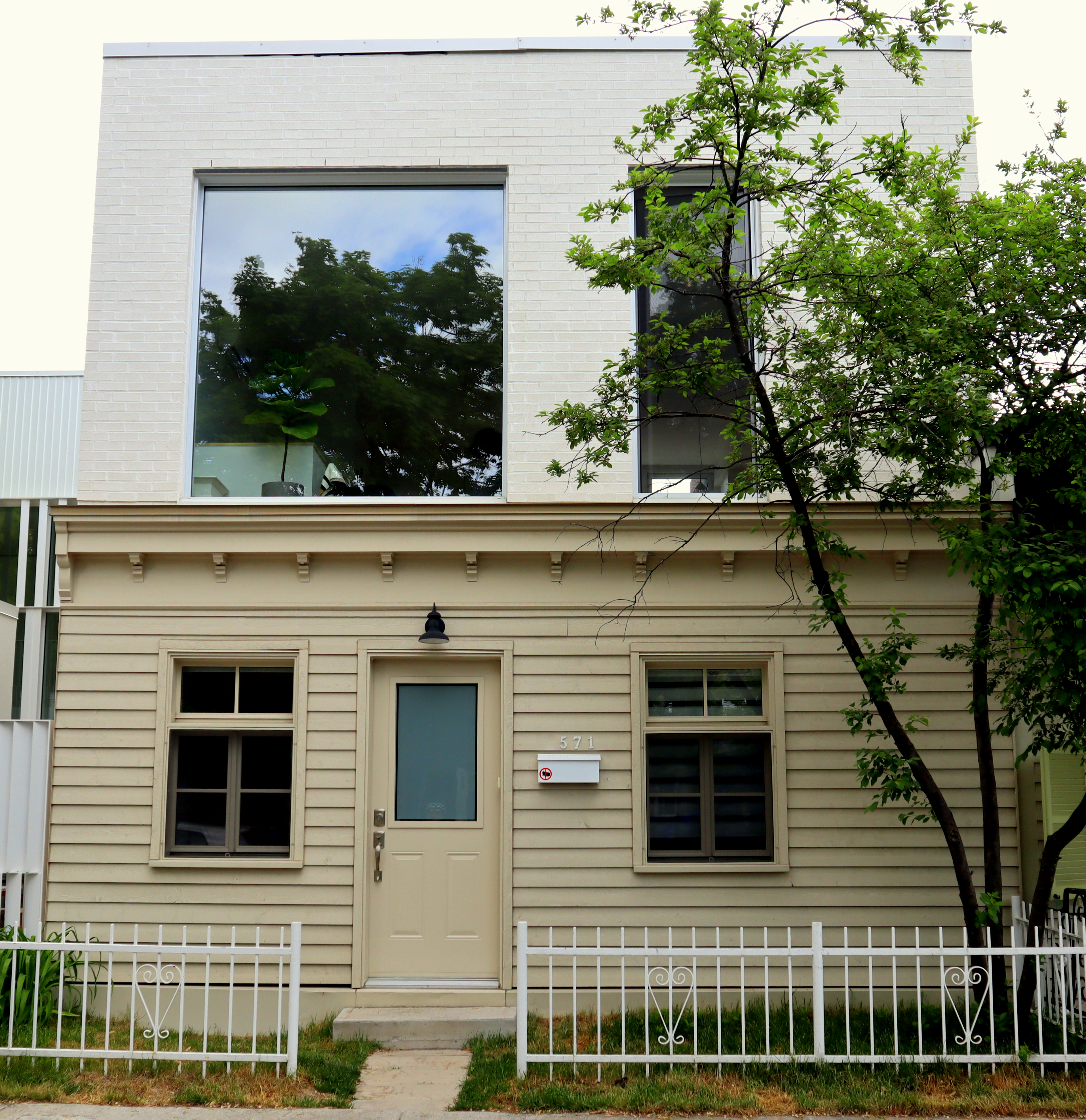 Shoebox Style House on Plateau Mont-Royal area in Montréal, Québec, Canada, with upper level added.